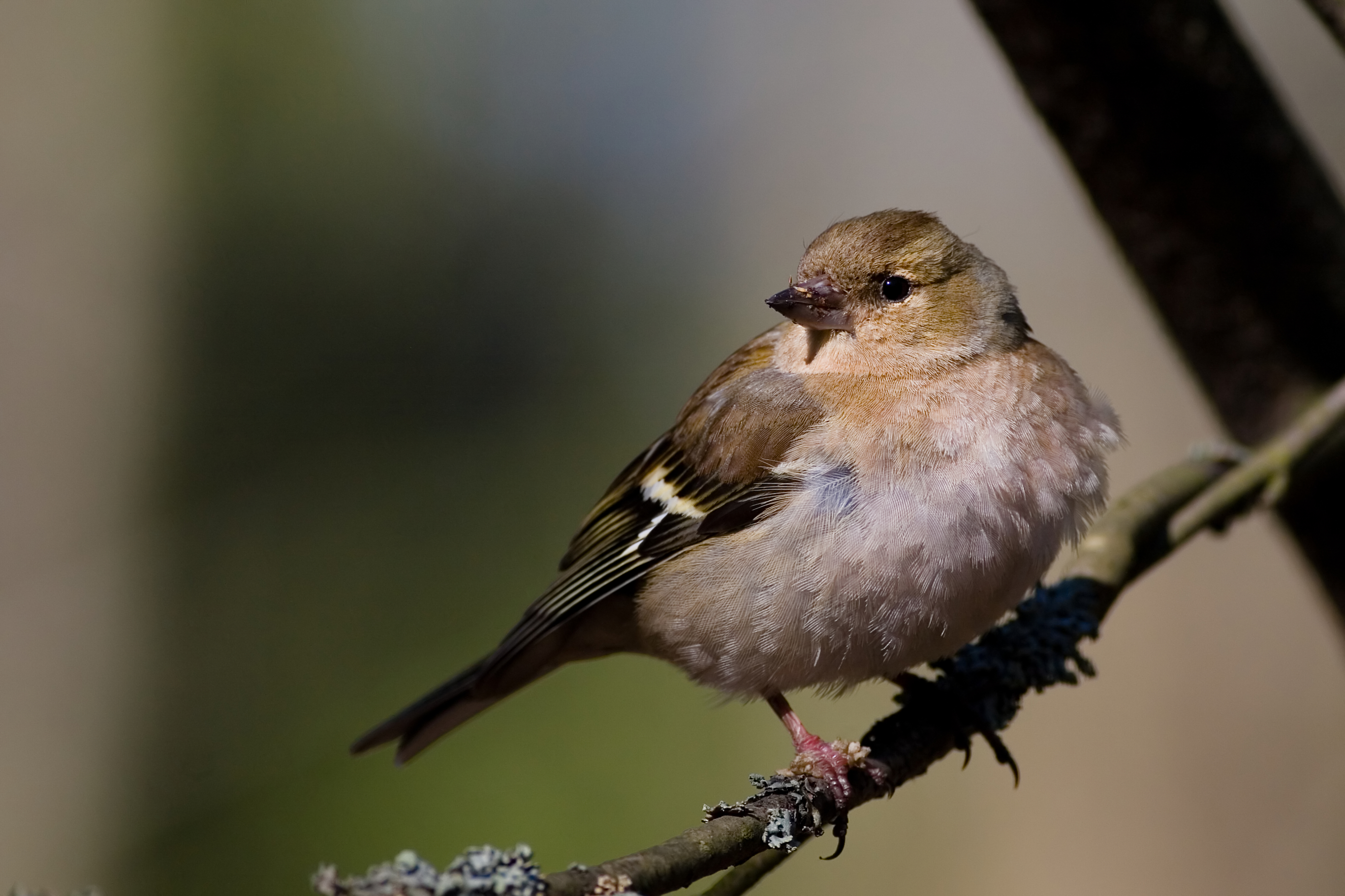 Chaffinch (Fringilla coelebs), Female. Photographed in forest near Viikki, Helsinki, Finland. Location (N):23240 (E):53847.